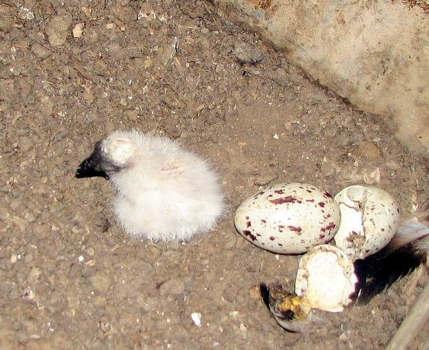 Just hatched on 5/29/2007